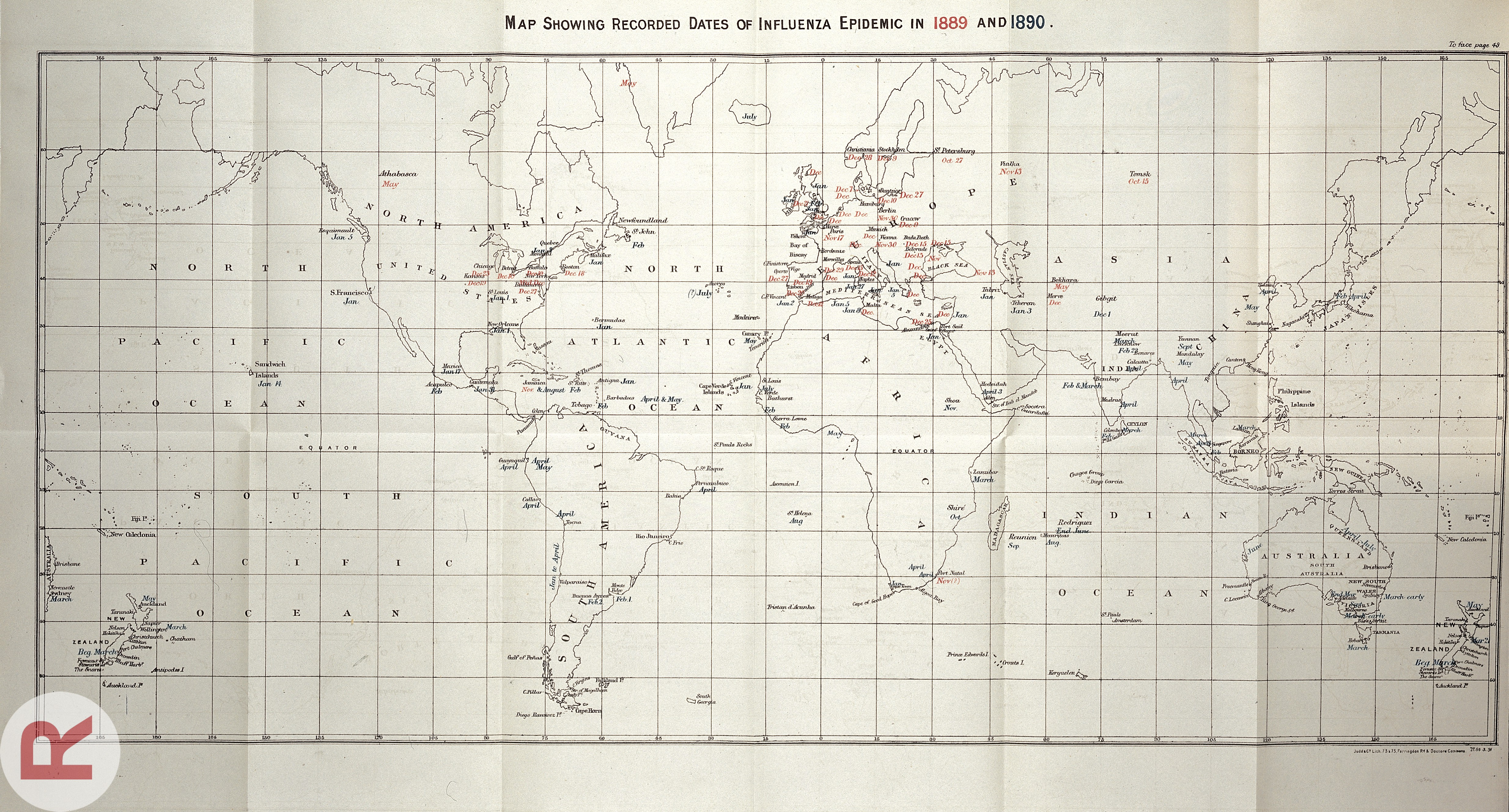 PARSONS, Henry Parsons (1846-1913) Report on the influenza epidemic of 1889-90 / by Dr. Parsons, London : Printed for H.M.S.O. by Eyre & Spottiswoode, 1891. General Collections Keywords: INFLUENZA; Epidemics; 1889-1890; EPIDEMIC; Influenza, Human; parsons, h. franklin